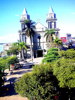 Catedral de Quibdó en el Chocó